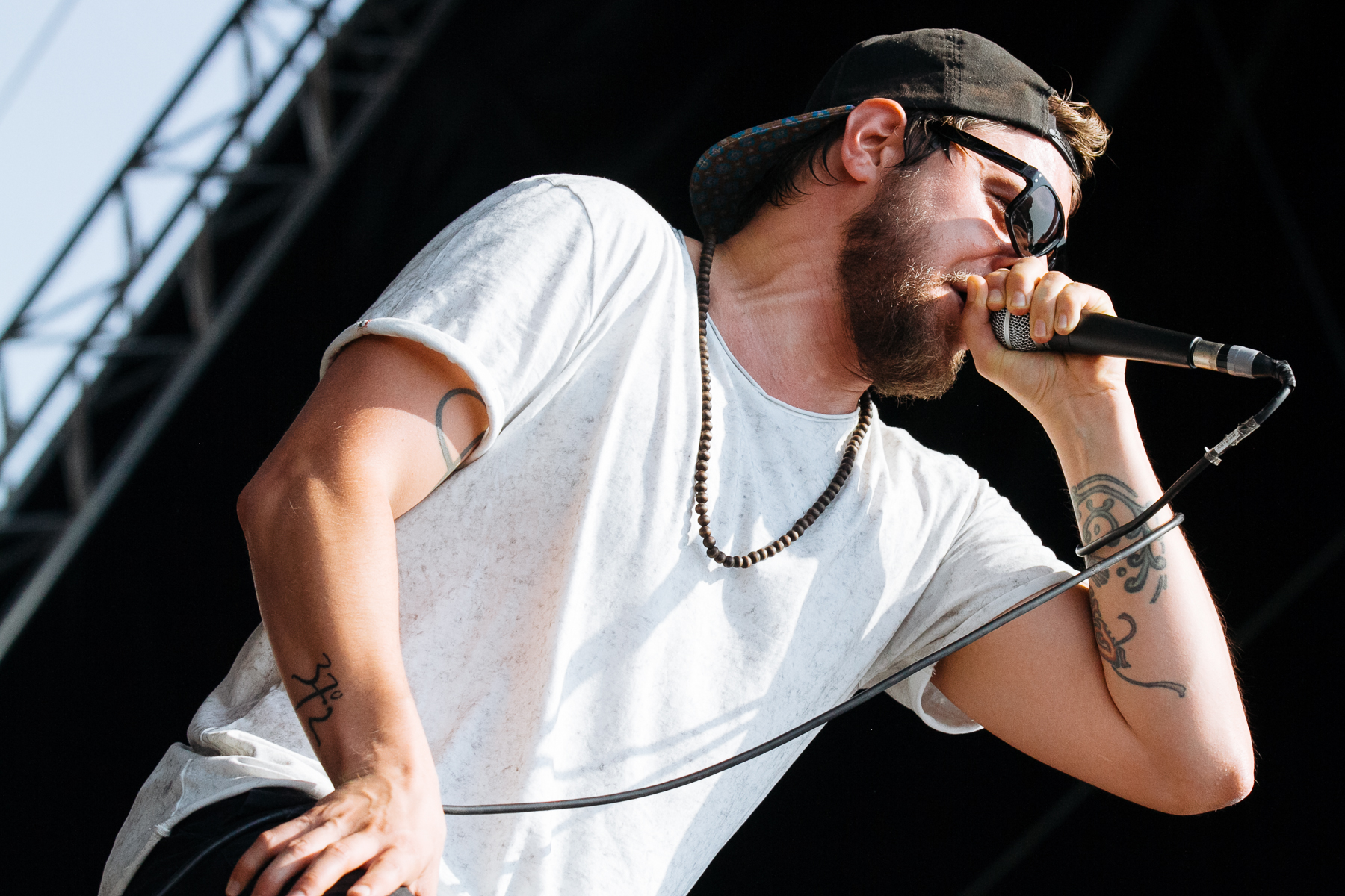 Breakdown of Sanity at Vainstream 2015